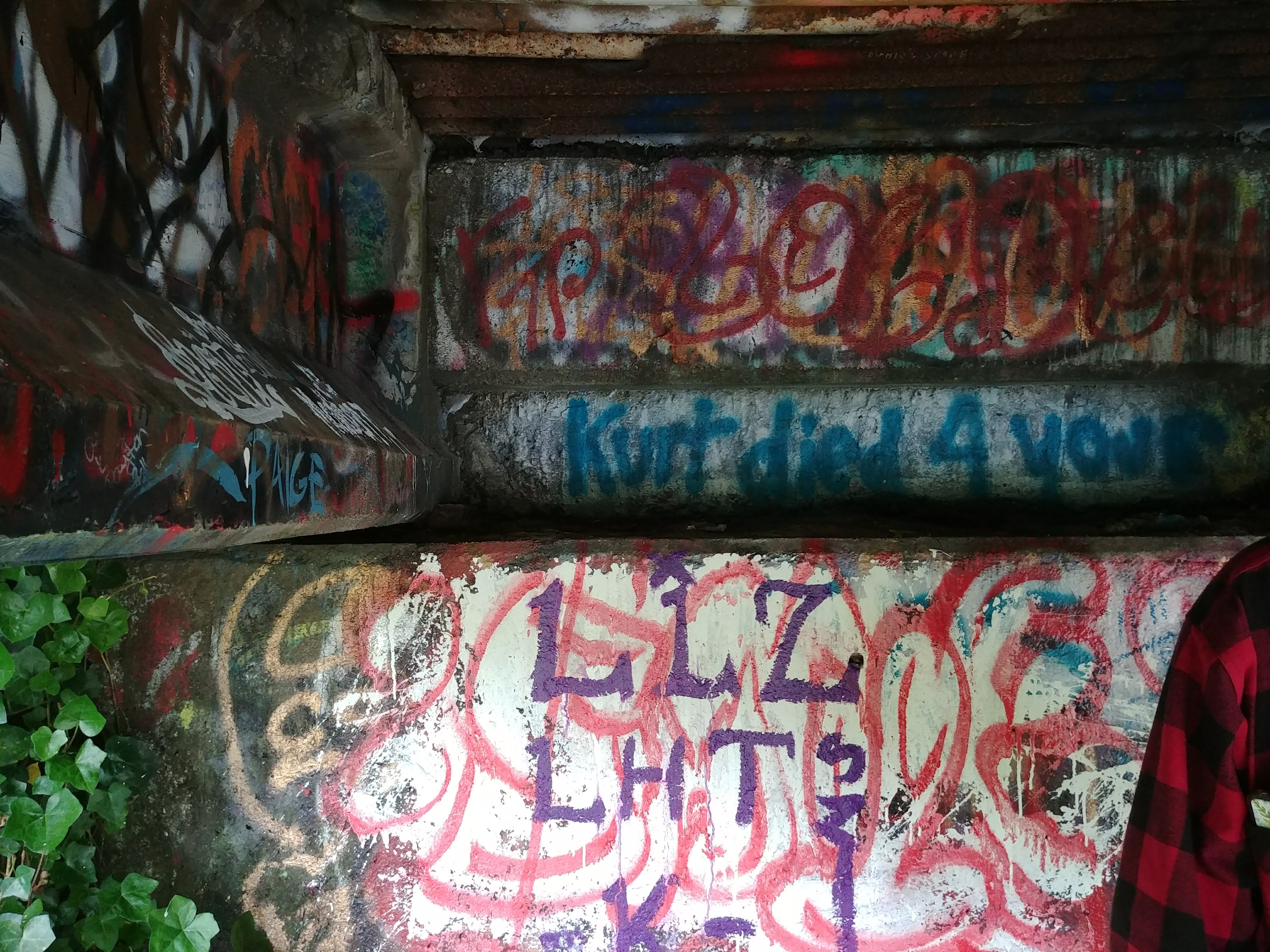 Graffiti referencing the life and lyrics of Kurt Cobain. A prominent writing says "Kurt died 4 you".